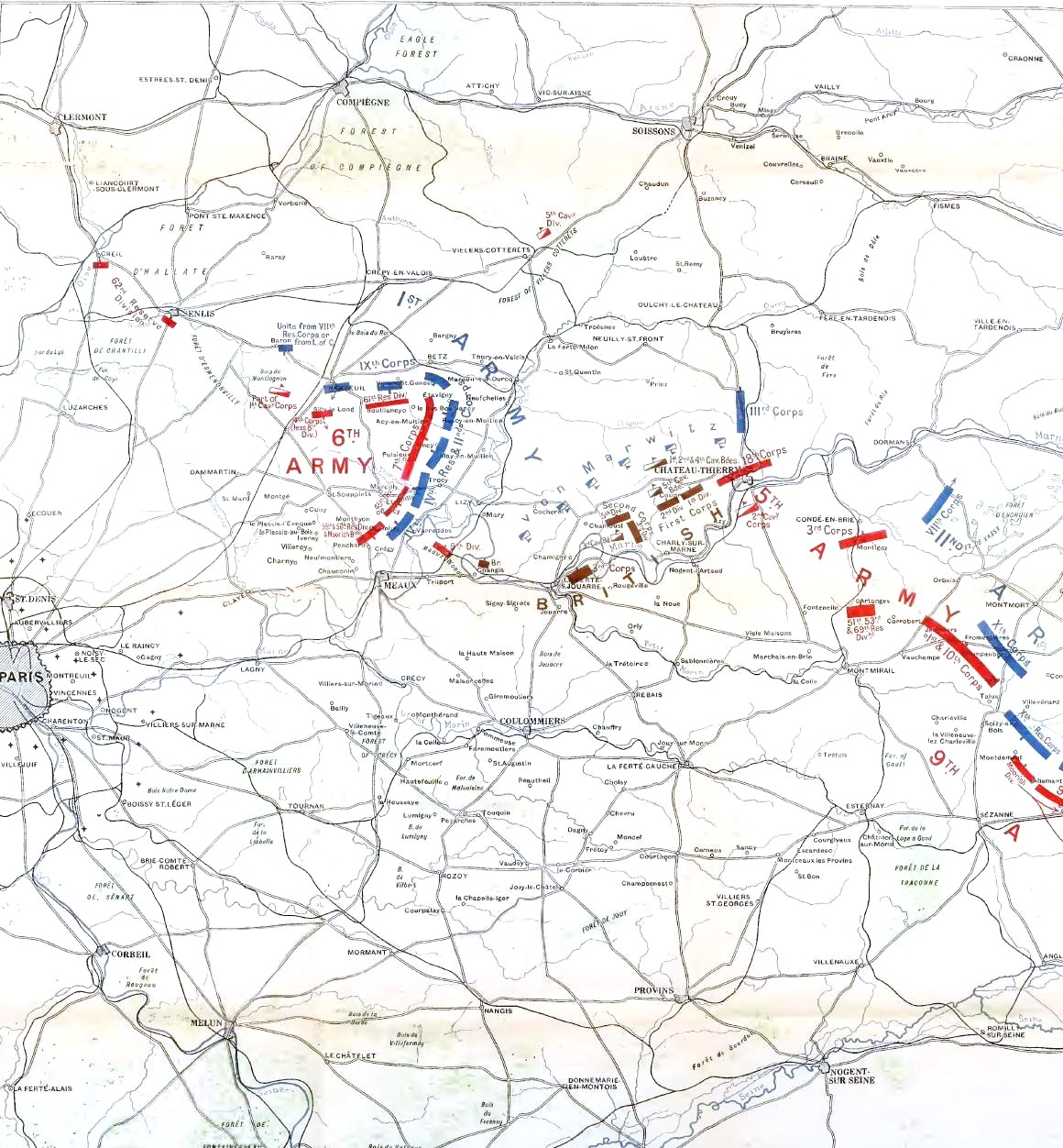 Map Marne 1914a